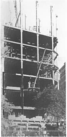 Structural steel facade of the Hotel Martinique expansion, c. 1910